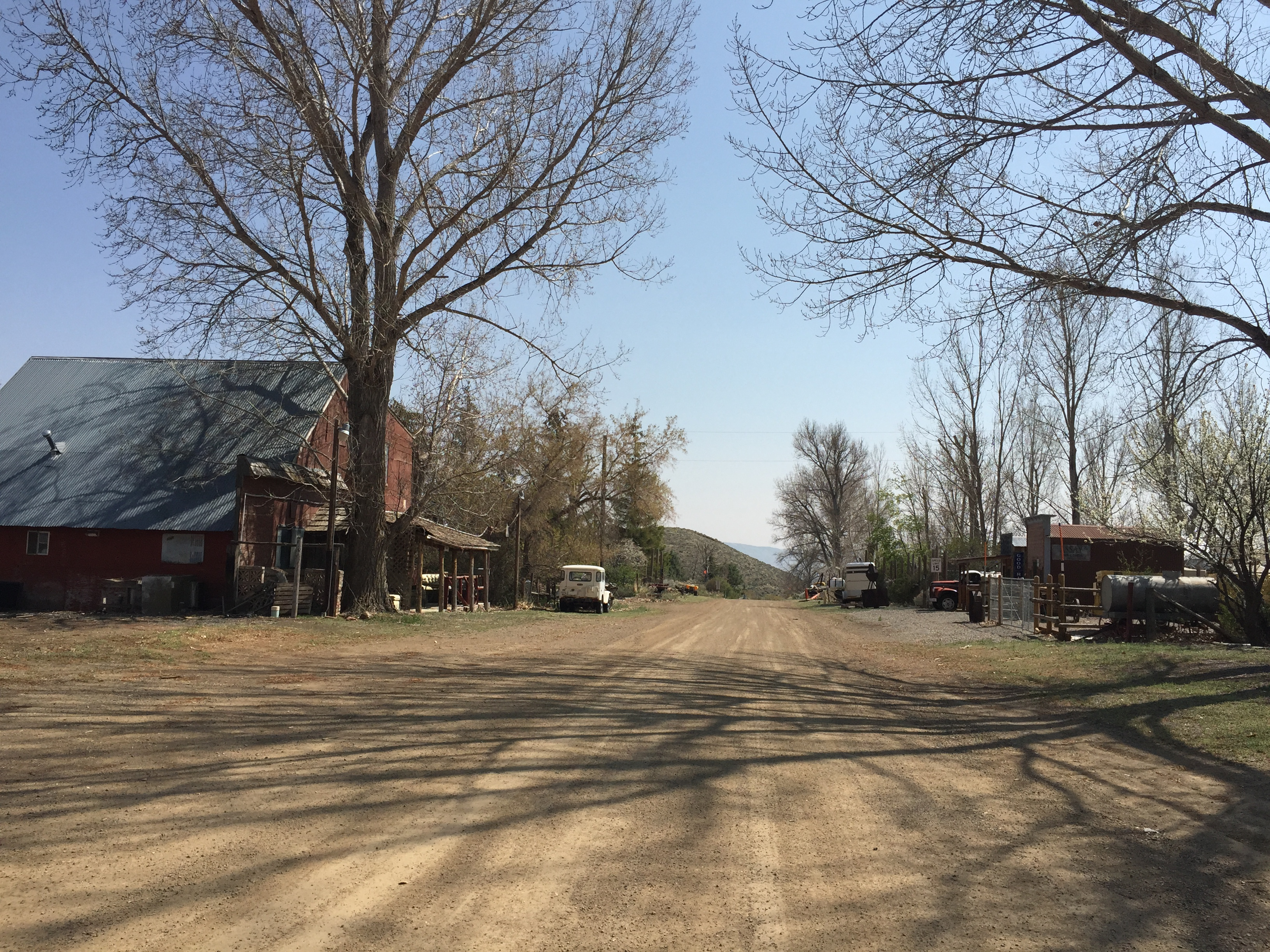 View south along Main Street about 2.4 miles north of the junction with Midas Road (Elko County Route 724) in Midas, Nevada